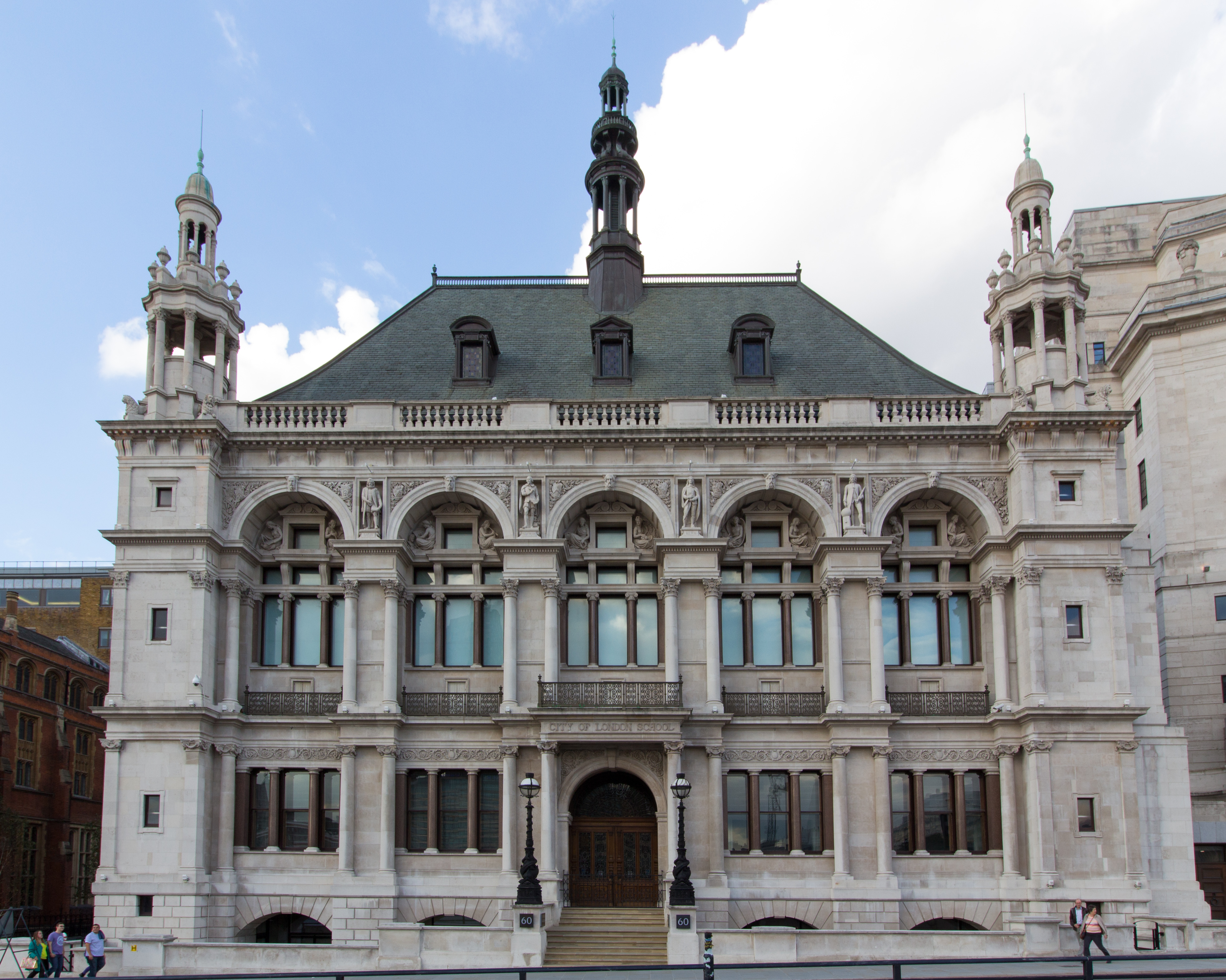 The old City of London School building, from 1883 to 1987. Now offices